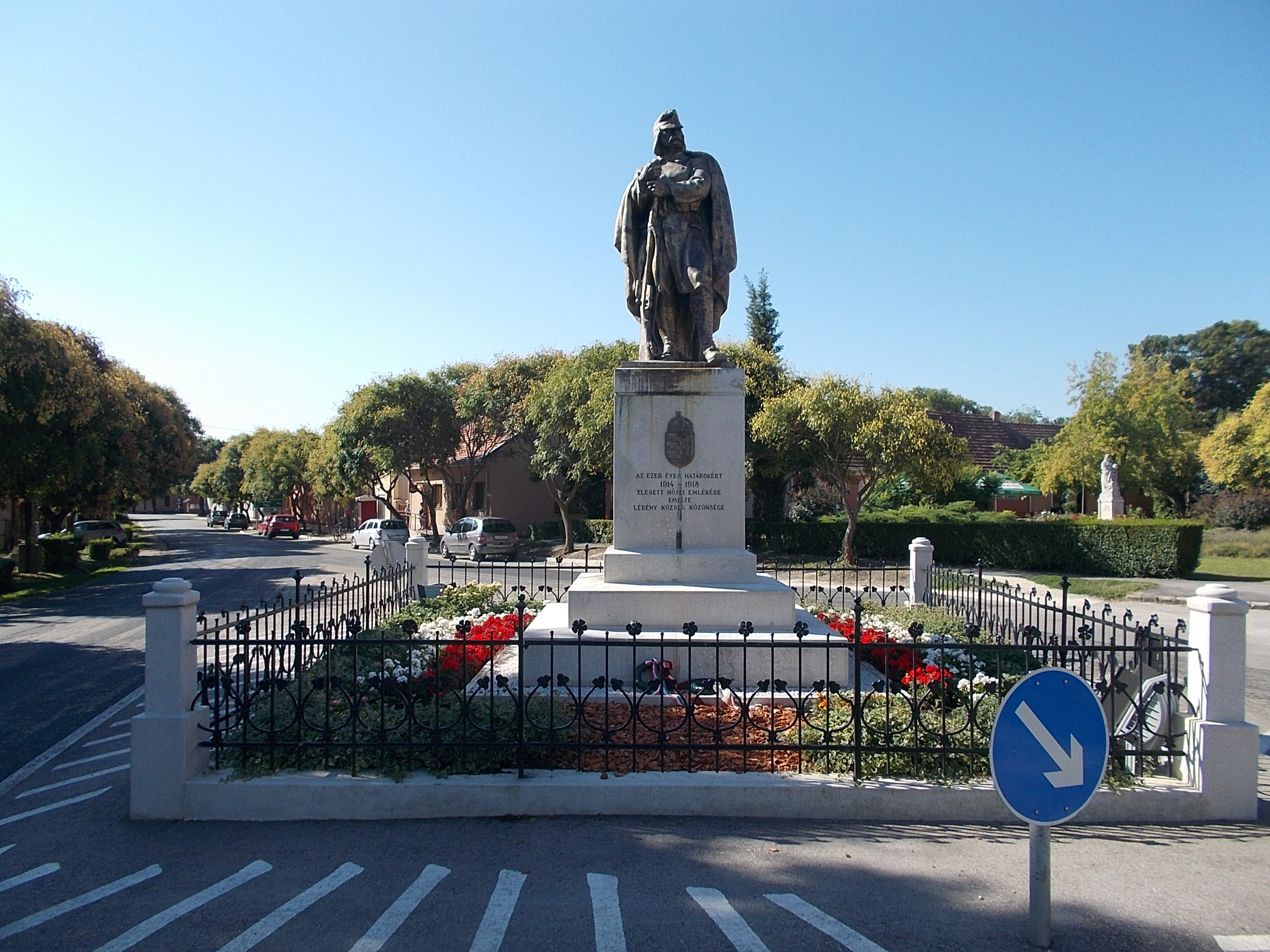 World War I memorial by Ottó Kreipel Kalotay (1930 works, Bonze statue on limestone base, cityscape significance, there are 170 victims named in alphabetical order on the base). - Fő Street and Damjanich Street corner, Lébény, Győr-Moson-Sopron County, Hungary.